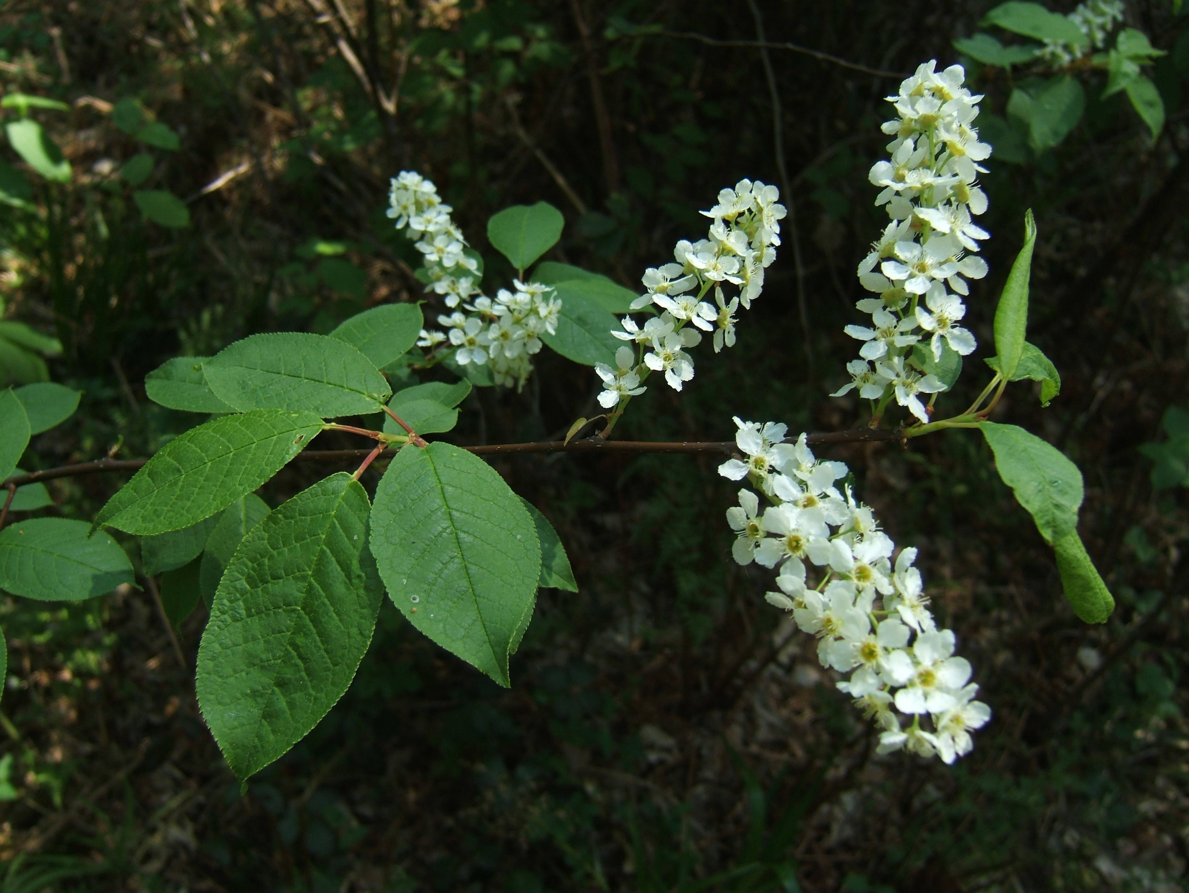 Bird Cherry Prunus padus, Northumberland, UK